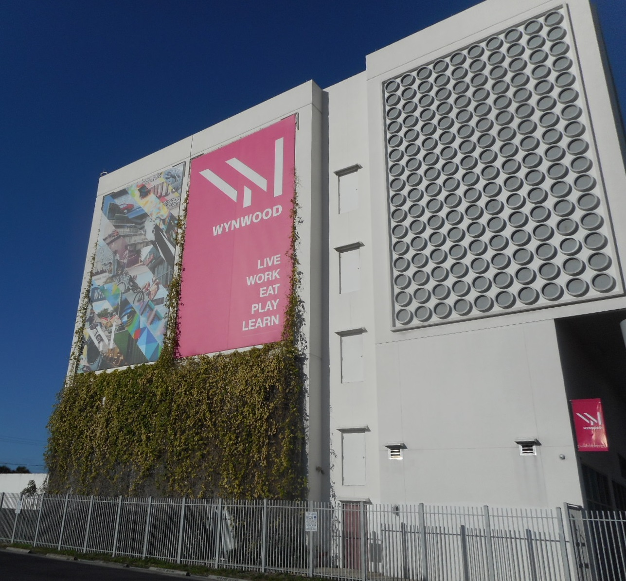 westward view of Wynwood business association banner on at the time tallest building in Wynwood.